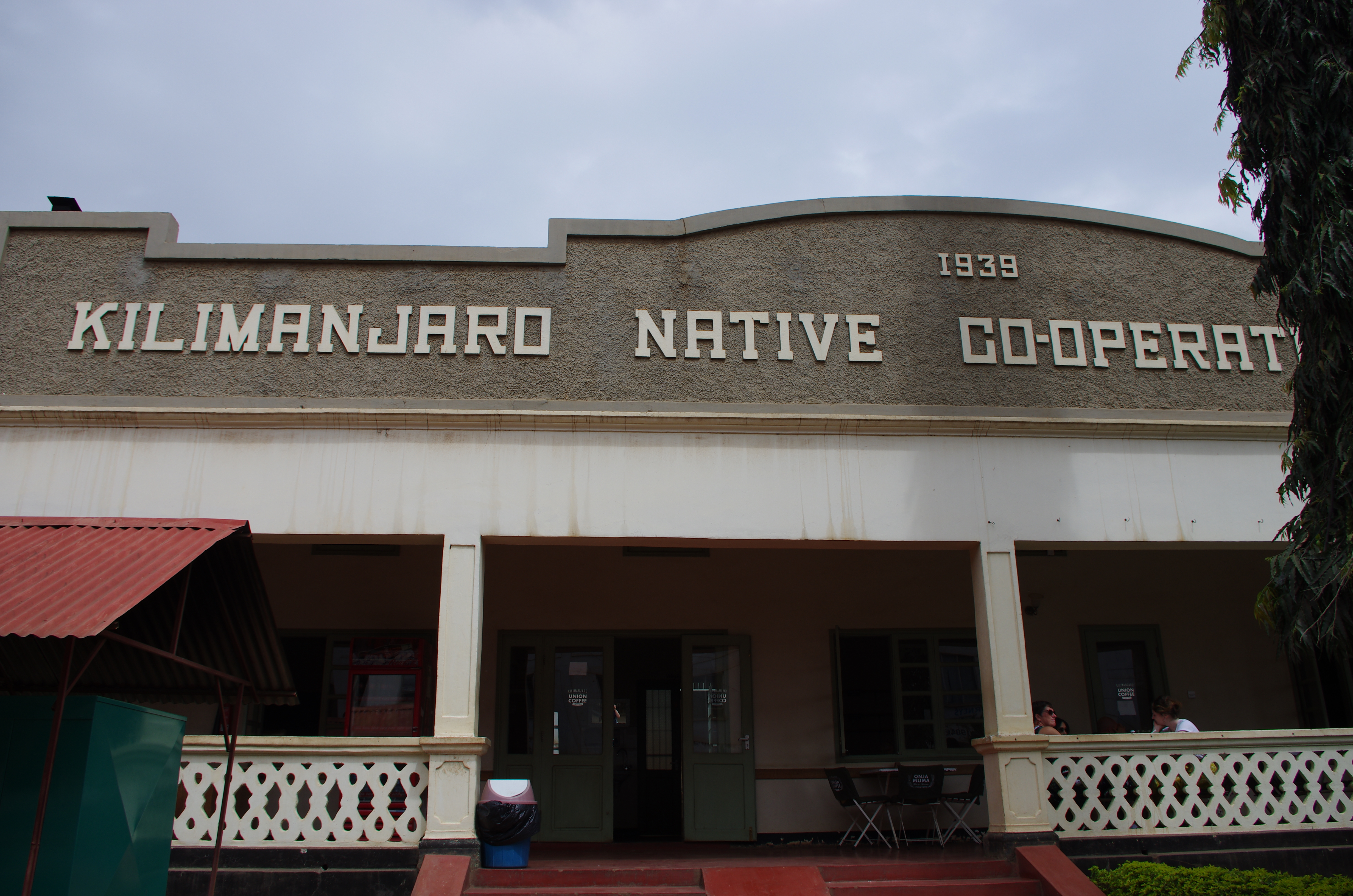 Around Moshi, Tanzania